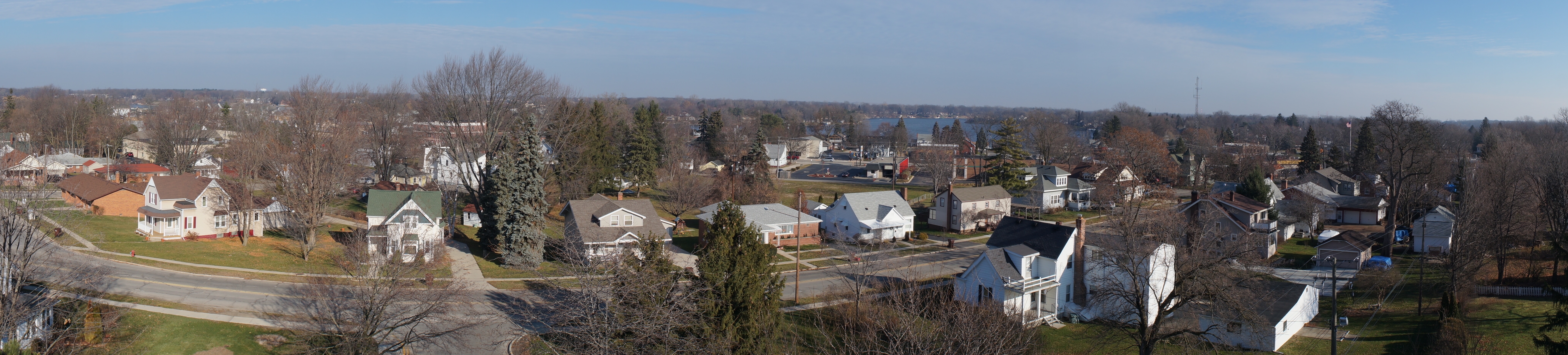 Belleville, Michigan's Skyline